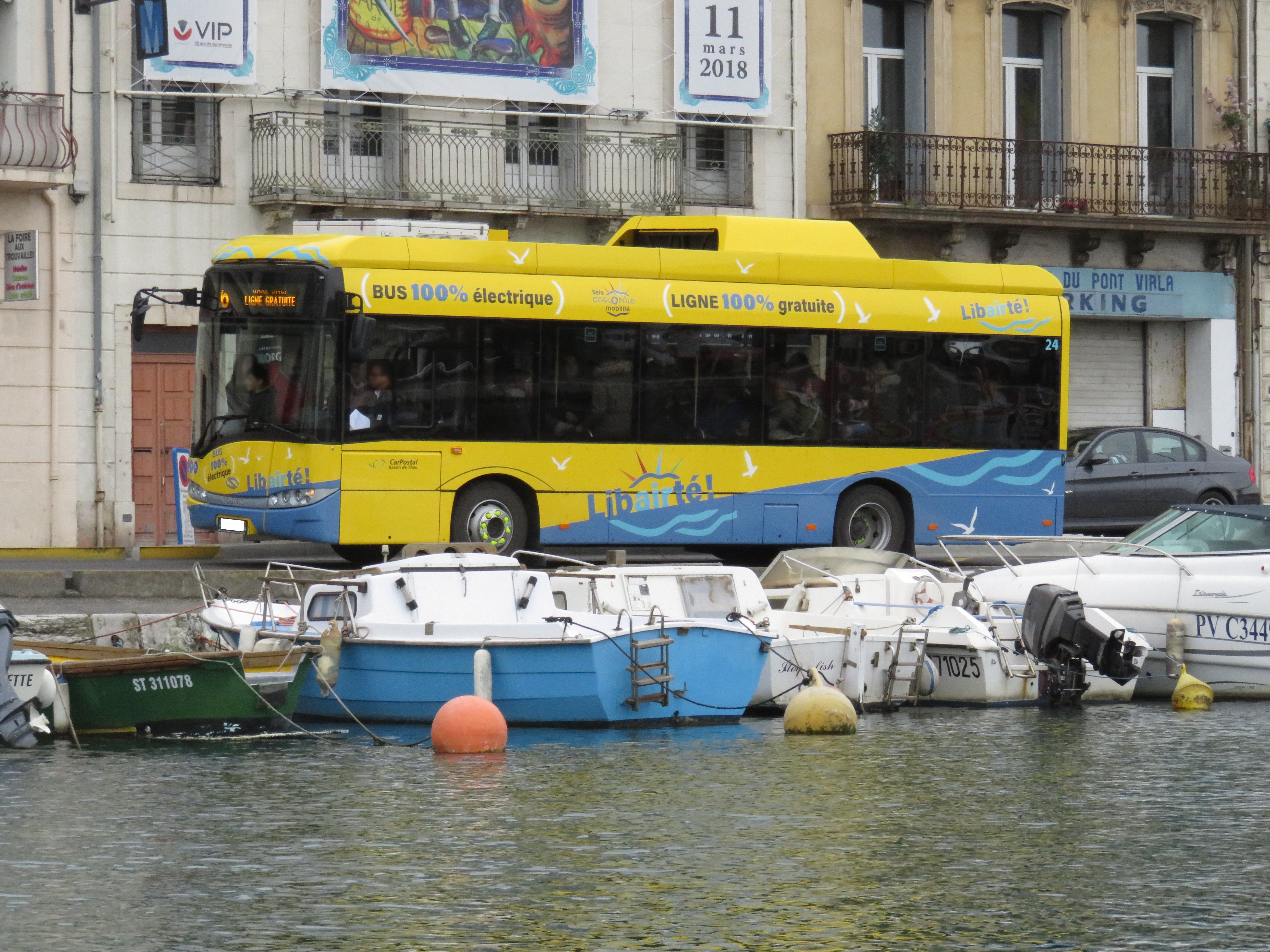 A Solaris Urbino 8,9 LE electric (CarPostal Bassin de Thau) running on Sète Agglopôle Mobilité line 6 — shuttle in the town center of Sète — on the Quai du Maréchal de Lattre de Tassigny (Sète, France) on April 2, 2018.